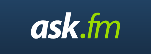 Logo for the social media website Ask.fm